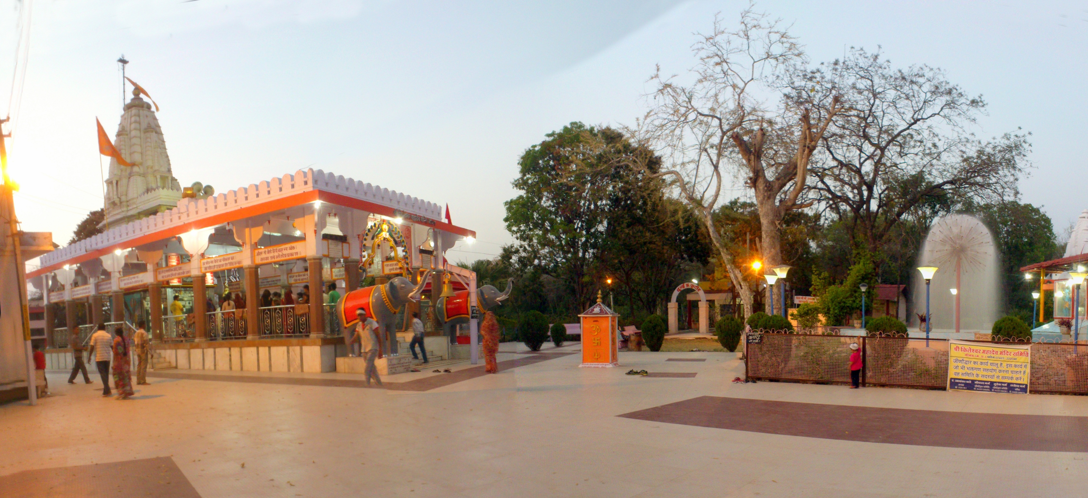 Shri Kileshwar Mahdev Temple Panorama Neemuc